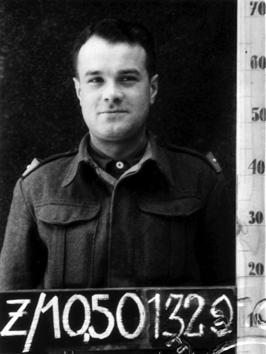 Czech Soldier, World War Two, Emil Toman, L/Sgt,Signals-(free Czechoslovakia) Served Eygpt, Tobruk(Libya), Palestine, Iraq, and Persia[Iran]